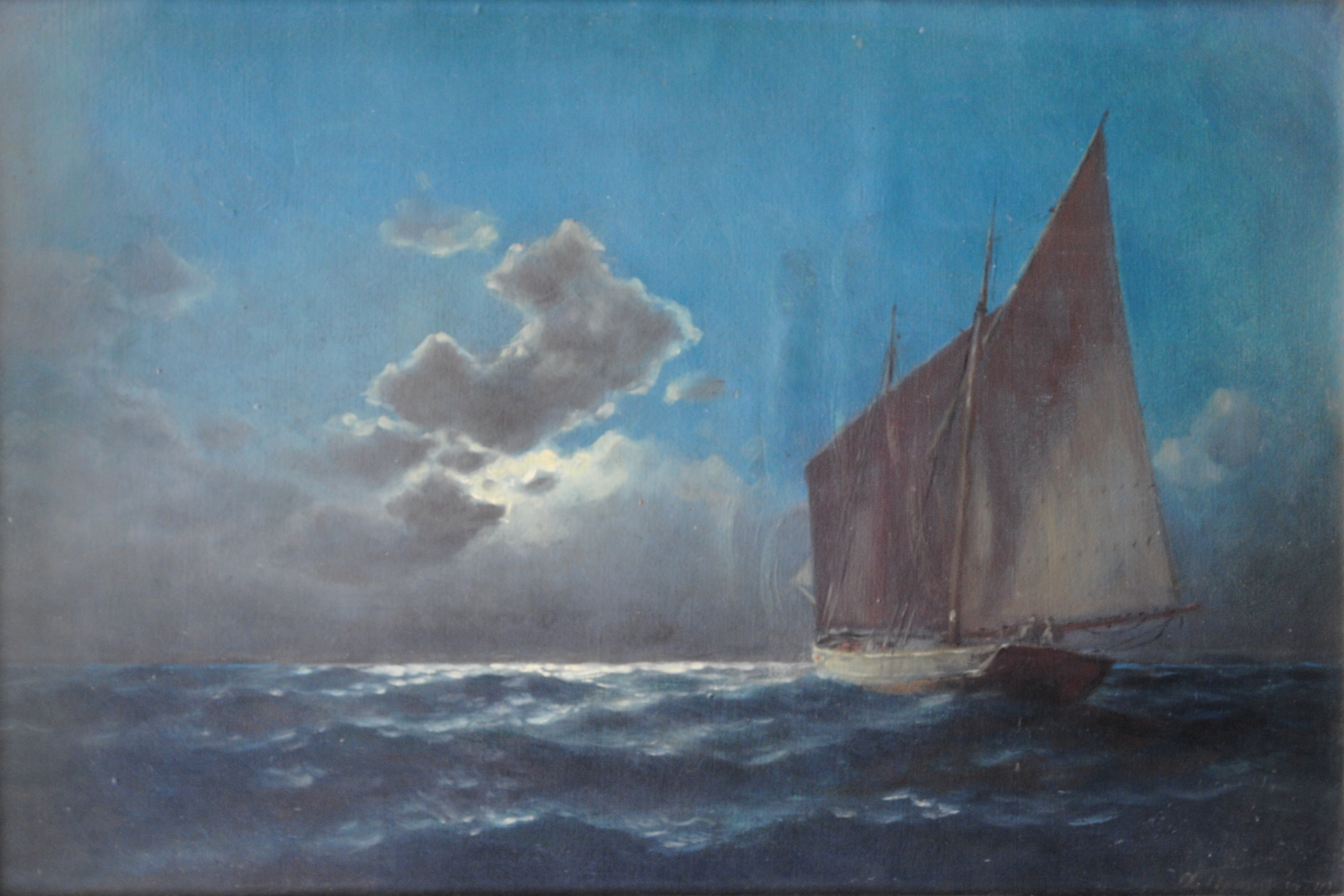 Aimilios Prosalentis, Oil on canvas pasted on cardboard, 25,5 x 38,5 cm, Private Collection